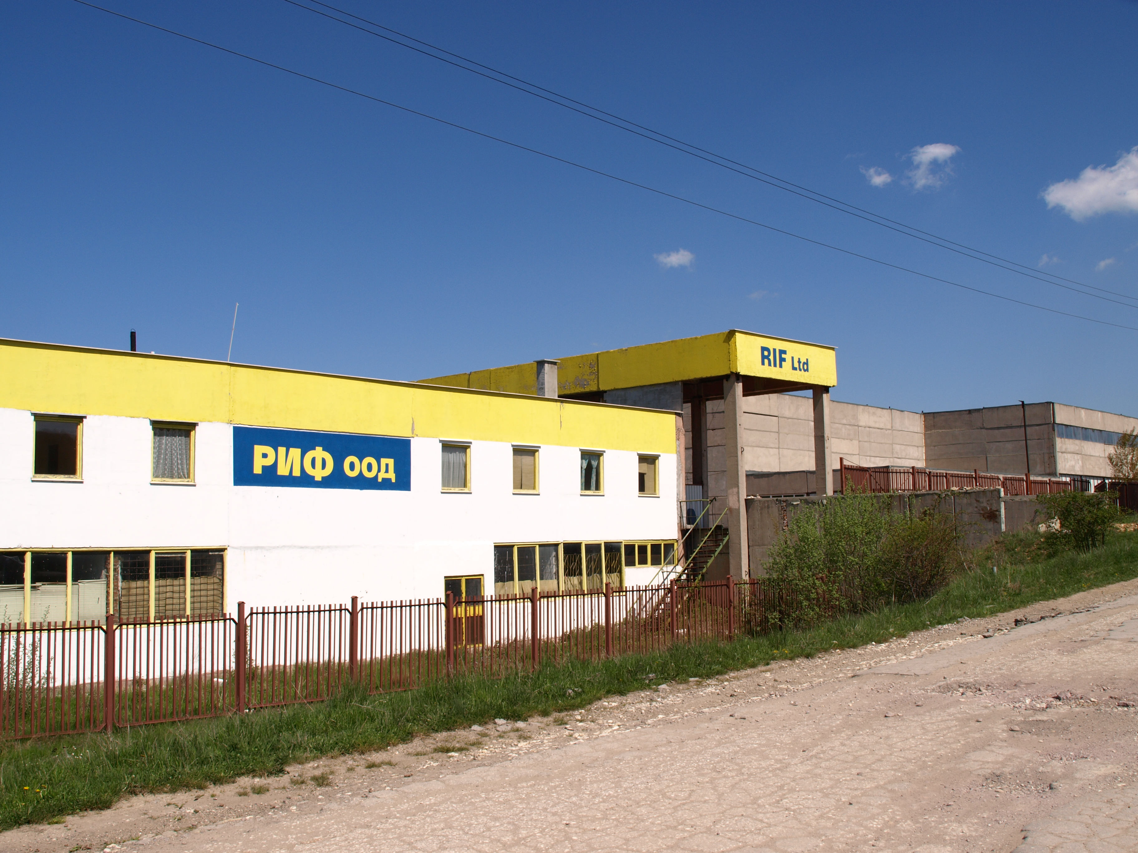 Building materials company RIF Ltd., Vakarel, Bulgaria